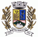 Coat of arms of the city of Dona Francisca, Rio Grande do Sul, Brazil.